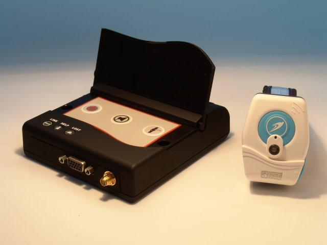 MOB controller and repeater.